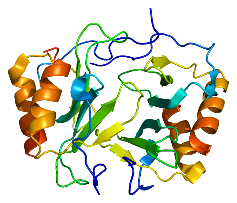 Structure of the PF4 protein. Based on PyMOL rendering of PDB 1f9q.